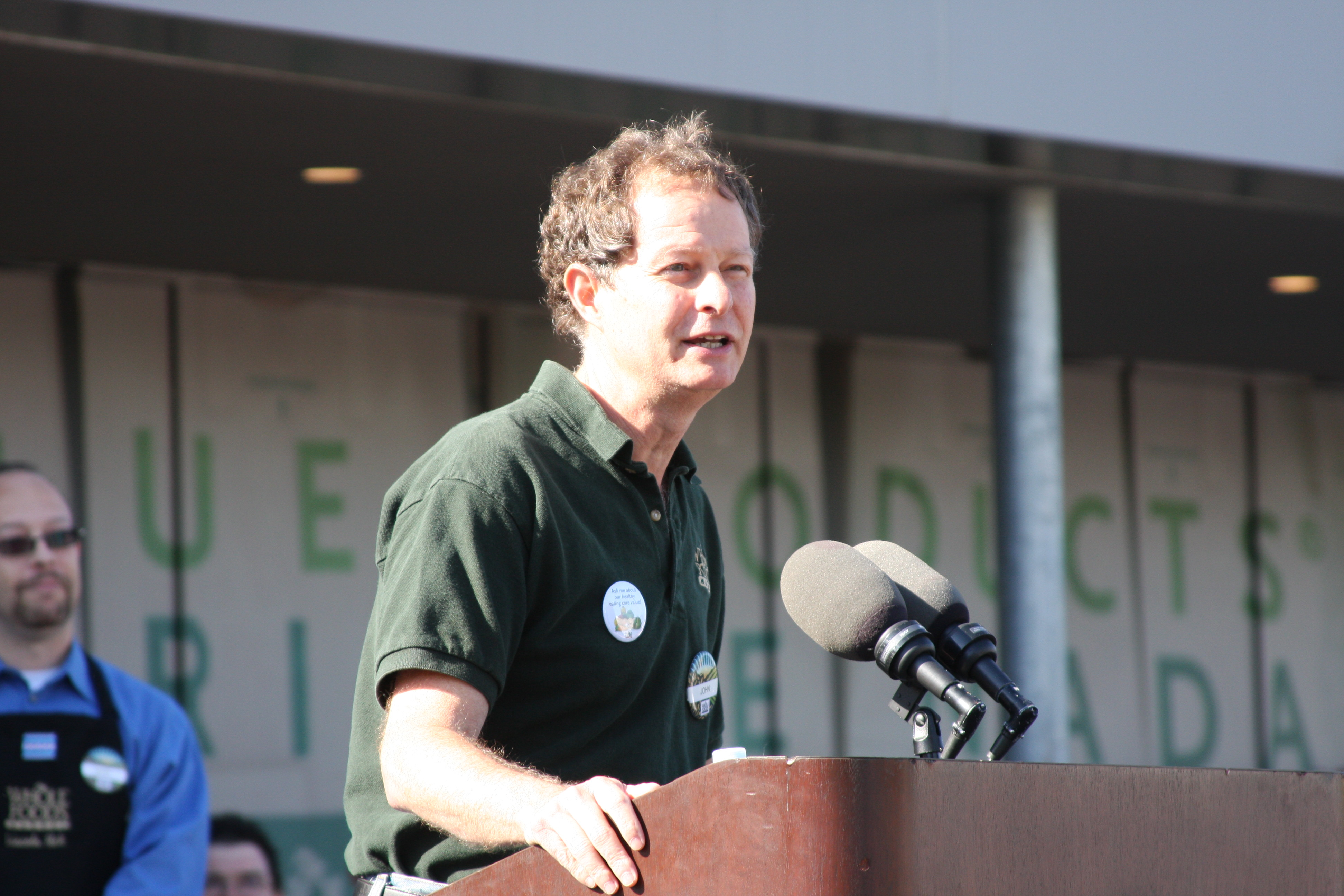 Whole Foods CEO John Mackey